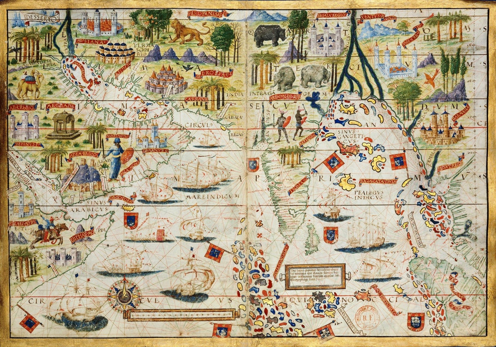 A Portuguese map made in 1519 depicting Indian Ocean areas.